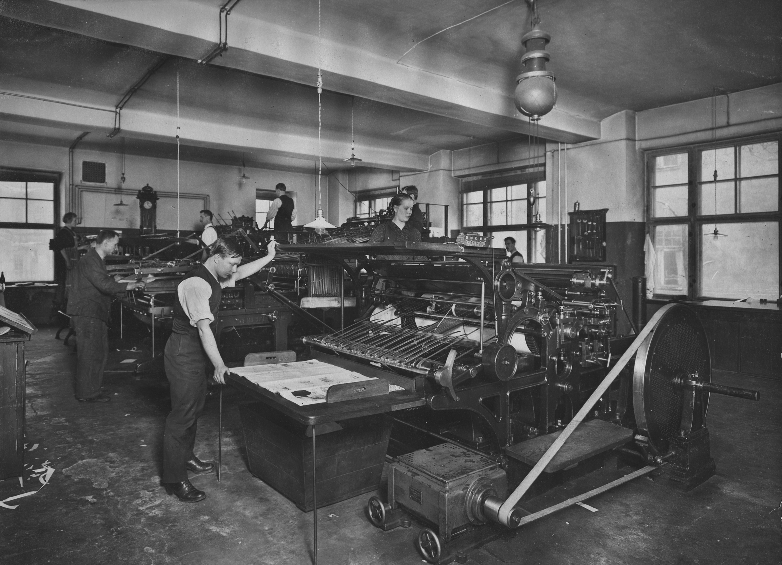 Printing the newspaper "Työmies" in Helsinki, Finland.